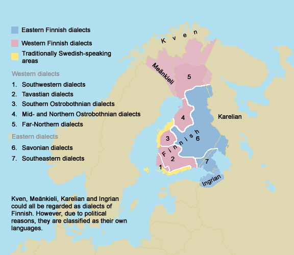 A map of Finnish dialects.